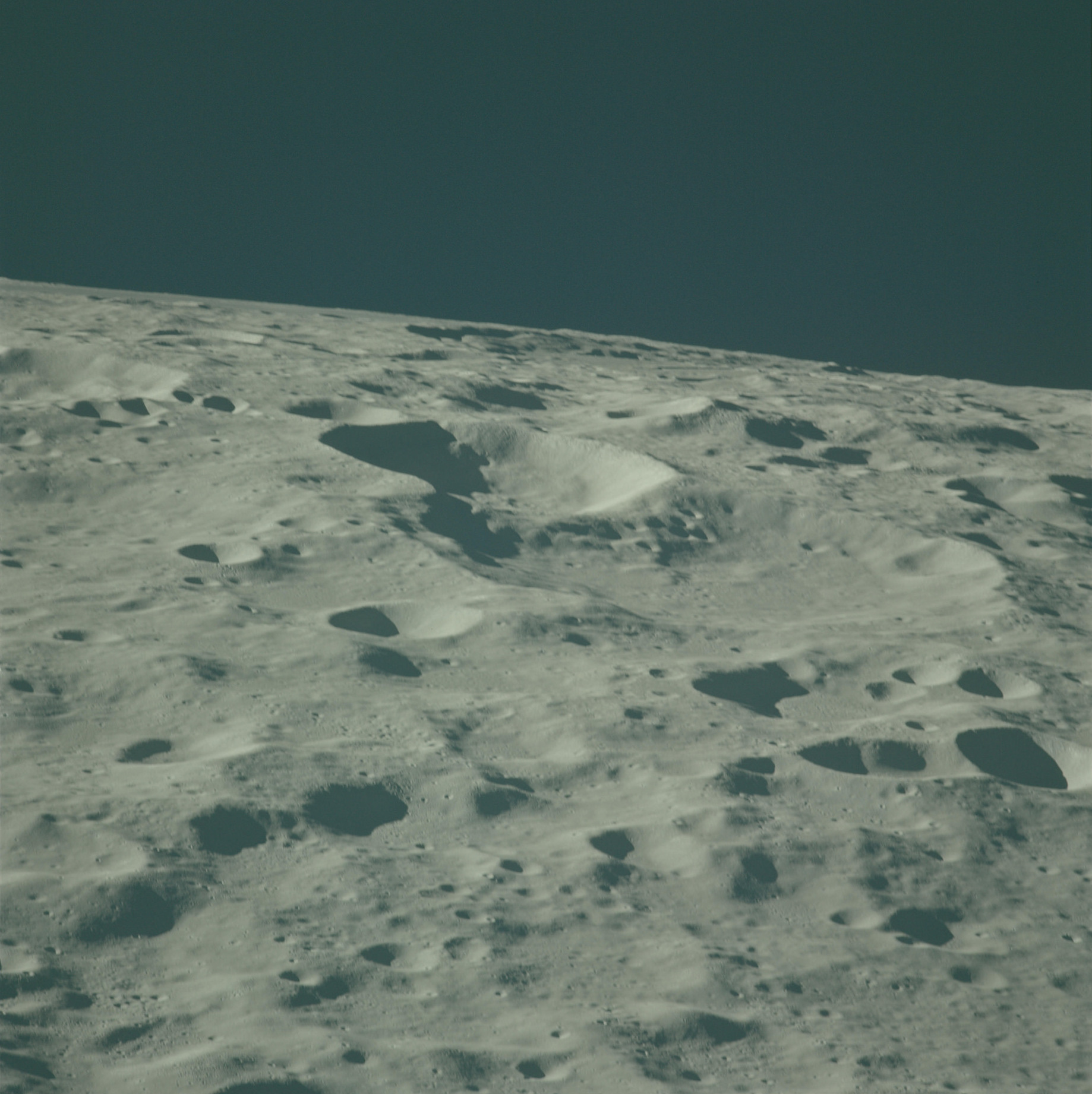 Oblique view of Nagaoka crater, on the far side of the moon.